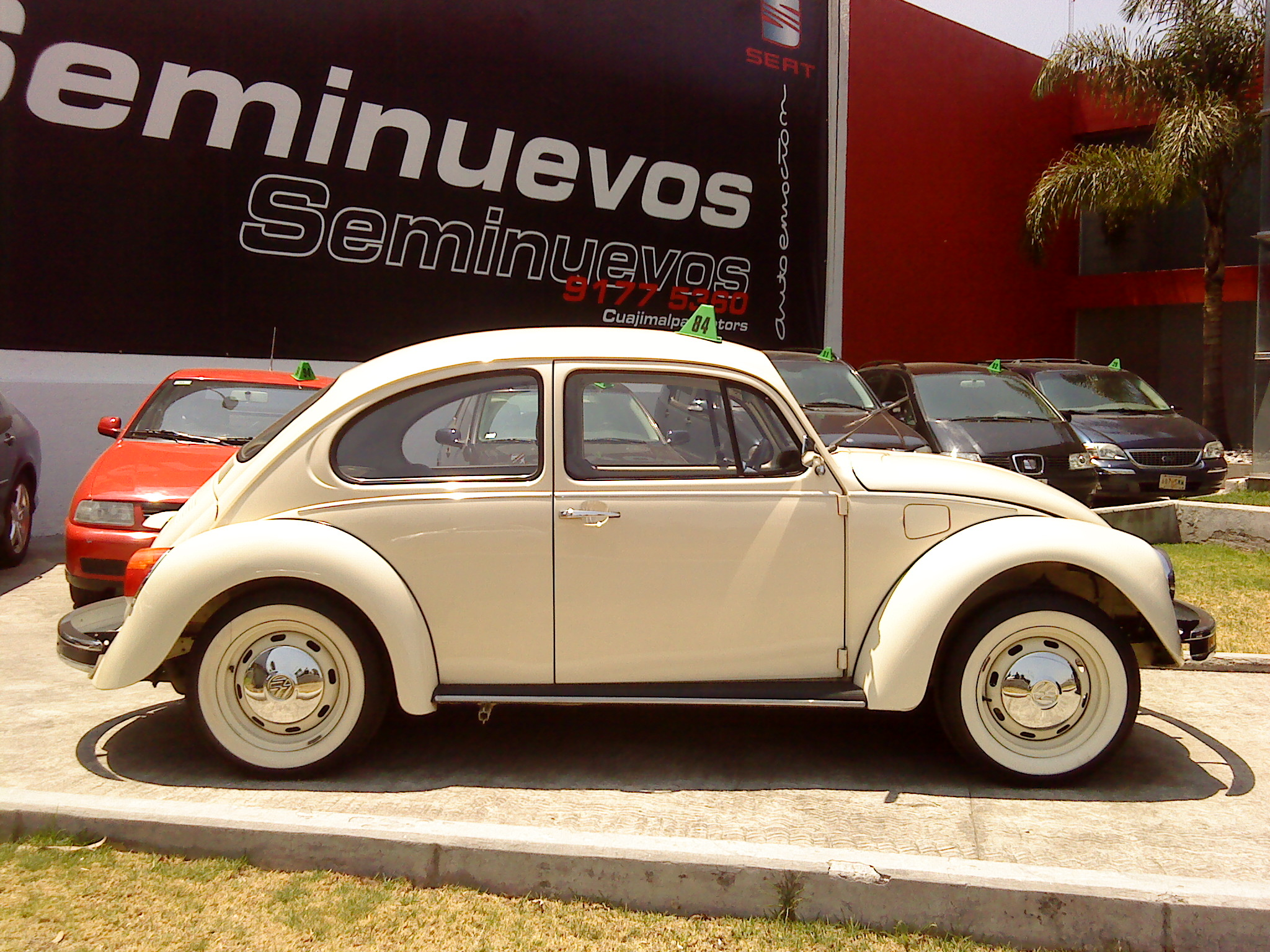 A beige 2003 Volkswagen Sedán Última Edición in México.